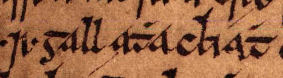 An excerpt from folio 23r of Oxford Bodleian Library MS Rawlinson B 488 (the Annals of Tigernach). The excerpt concerns Ragnall mac Torcaill, King of Dublin (died 1146).